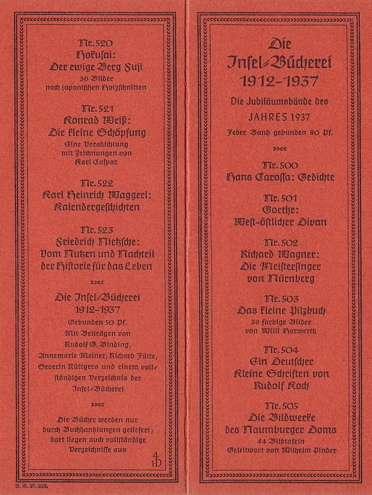 Promotional Flyer for the Insel-Bücherei 1937